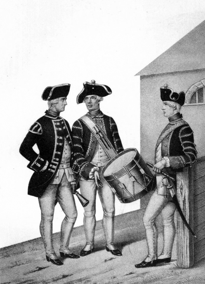 Infantry musicians of musketeers regiment, 1756-1760.